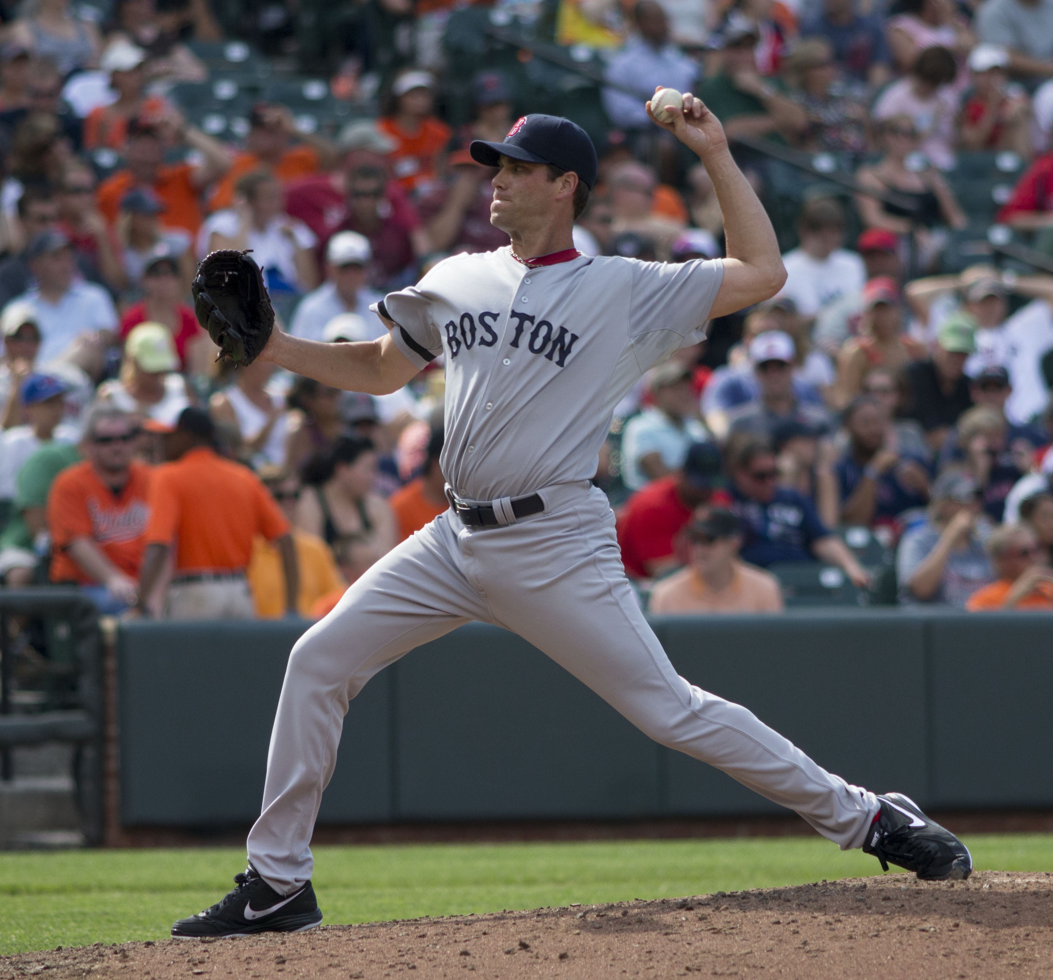 Matt Thornton